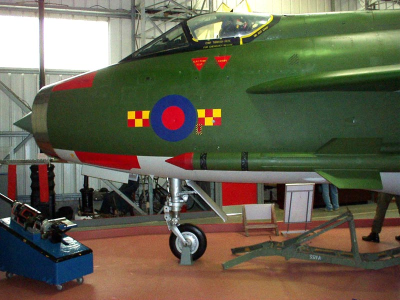 English Electric Lightning